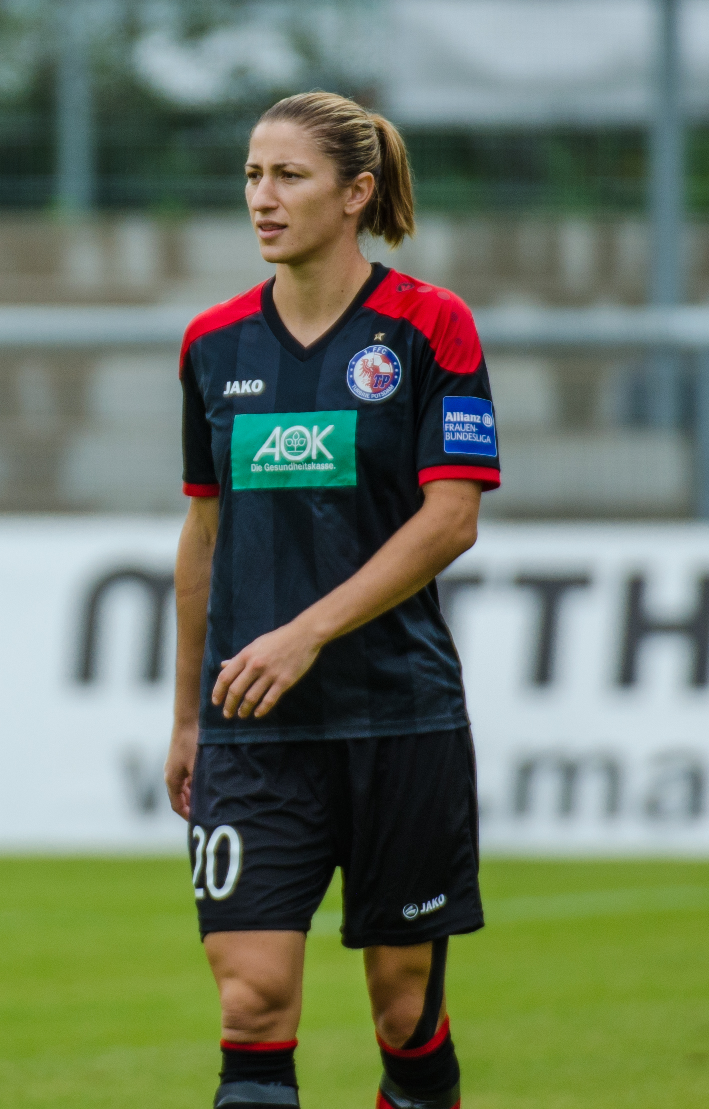 Match of the German Women's Football Bundesliga between 1.FFC Frankfurt and 1. FFC Turbine Potsdam, 2015-09-13